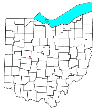 Locator map of the unincorporated community of Middleburg in Logan County, Ohio, United States.